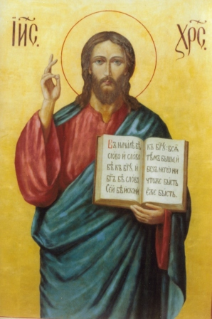 The icon was painted by artist Nicholas Morosoff in 1935 at the request of Bishop Wedgwood for the St Francis Church in Tekels Park, Camberley, and hangs above its main altar. Courtesy Liberal Catholic Church of St Francis of Assisi.